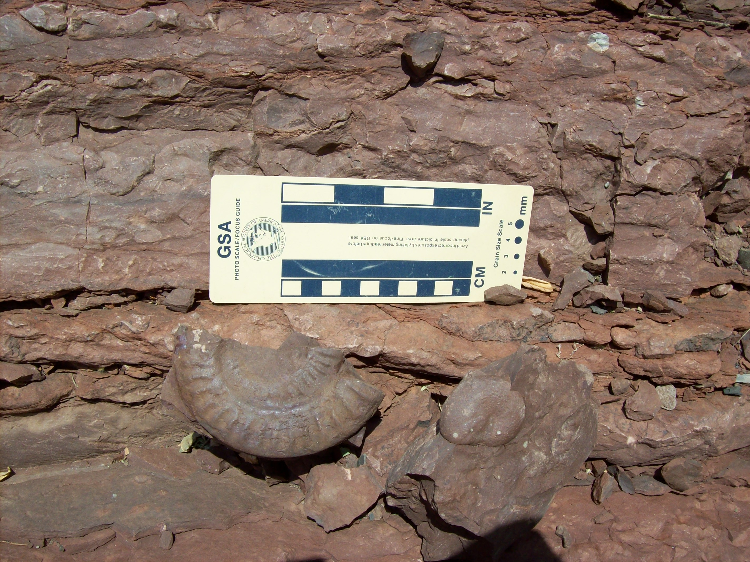 Ammonitico Rosso lithofacies (red nodular marly limestone) and examples of typical Ammonite fossils (Hildoceras sp. and Calliphylloceras sp.) from Late-Early Jurassic (Early Toarcian) of northern Lombardy (Italy-Southern calcareous Alps).